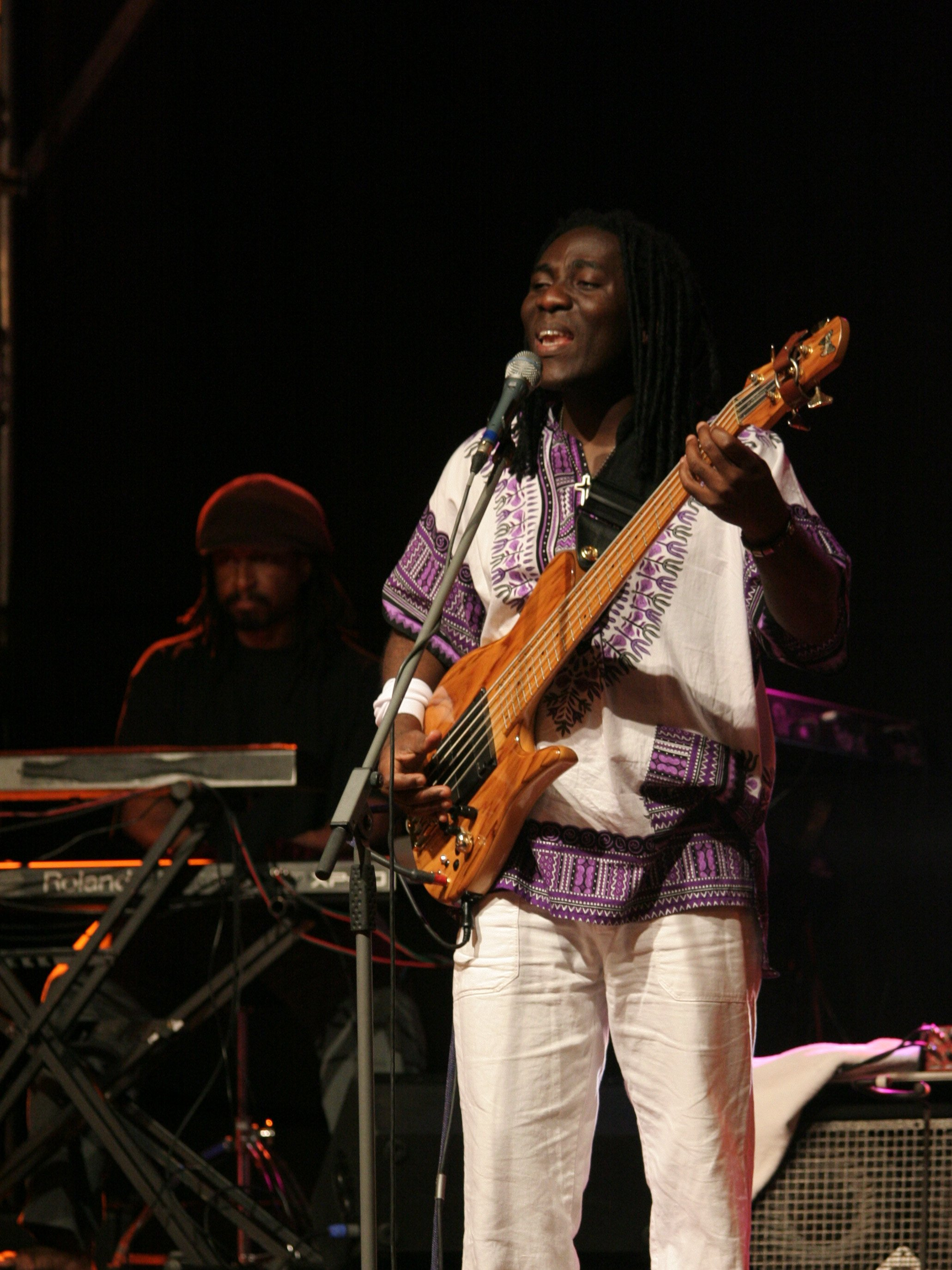 Richard Bona at the concert in Toruń, Poland, July 14th, 2007